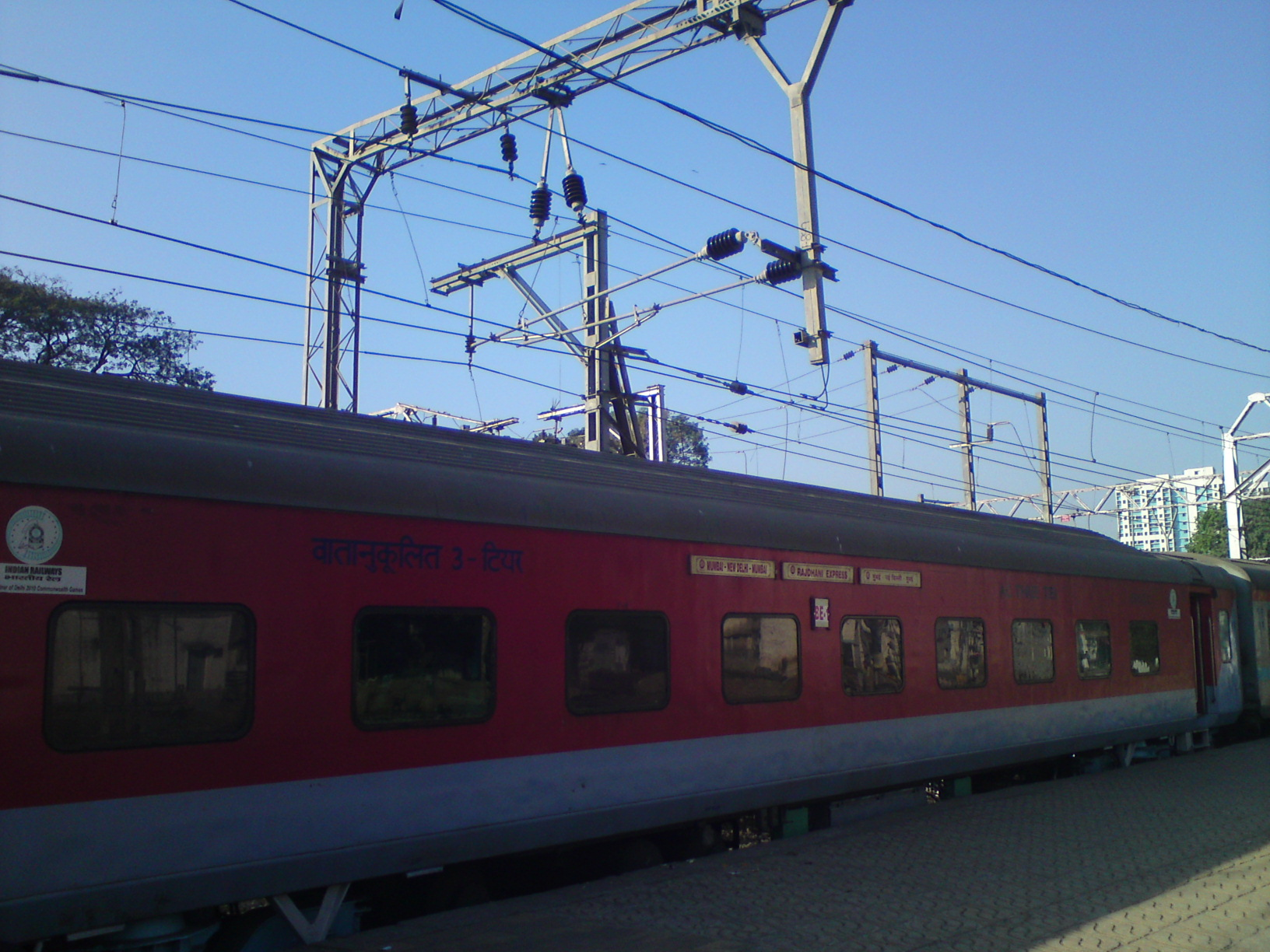 Mumbai Rajdhani at Mumbai Central